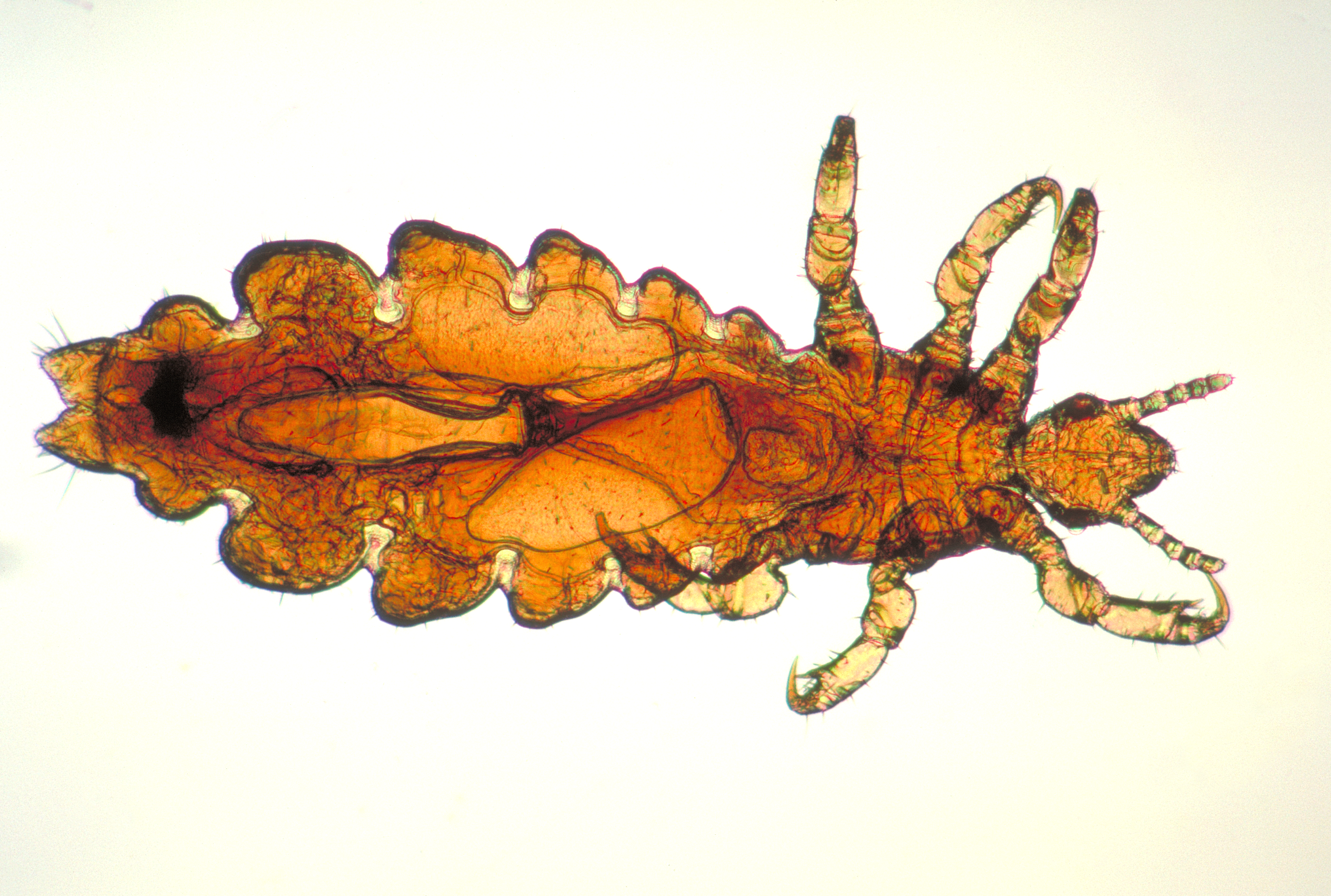 Head lice (Pediculus humanus capitis)